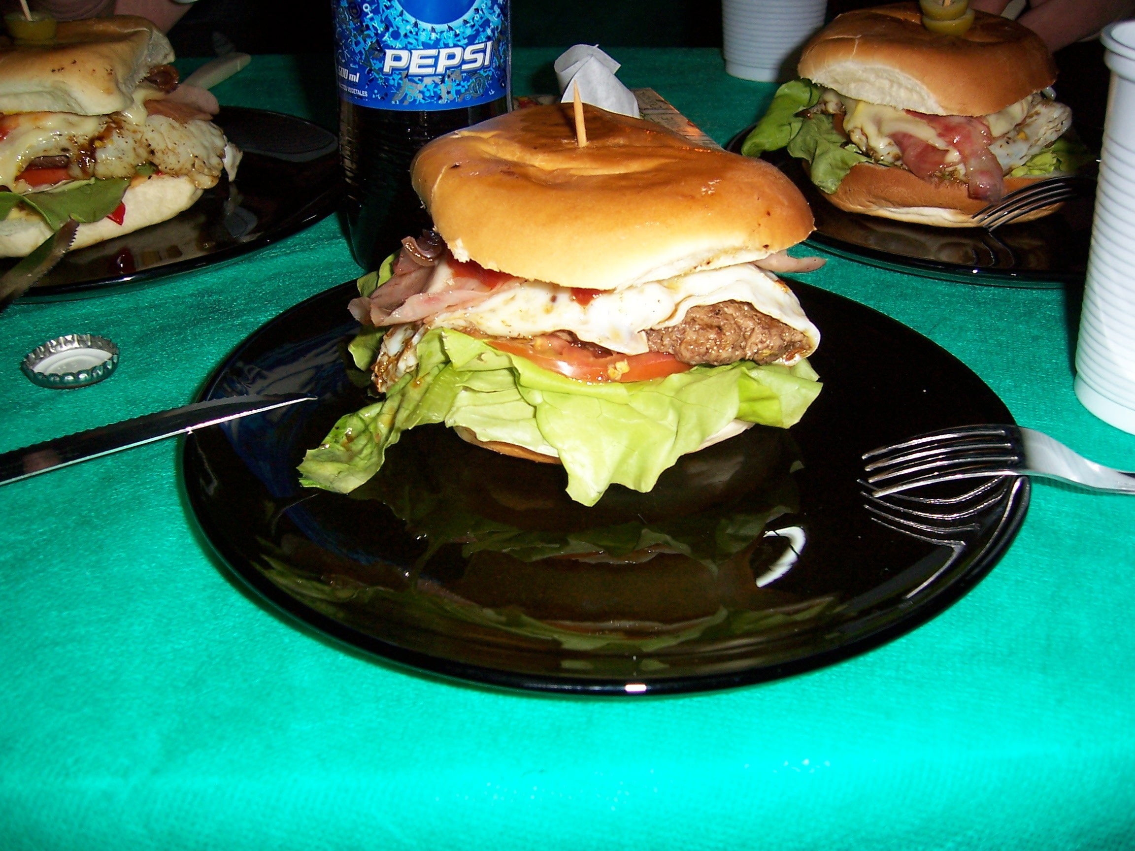 The Chivitos are an uruguayan food. The Chivitos pictured are prepared in the Vergara' square, Treinta y Tres, Uruguay.